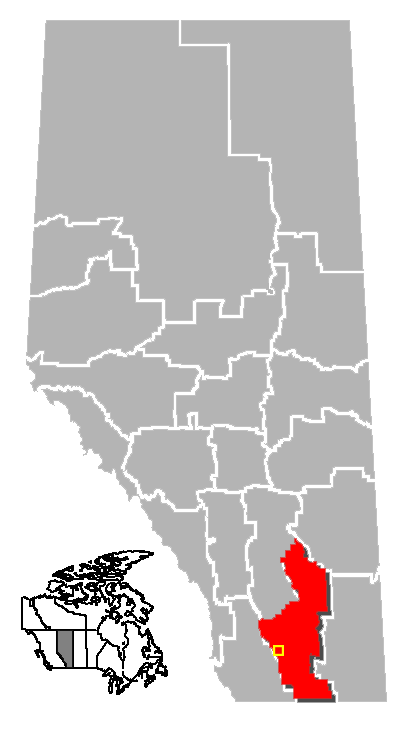 Location of Lethbridge, Census Division No. 2, Albera